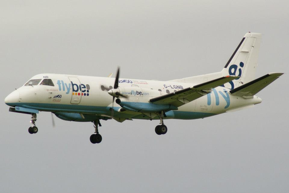 Saab SF340B